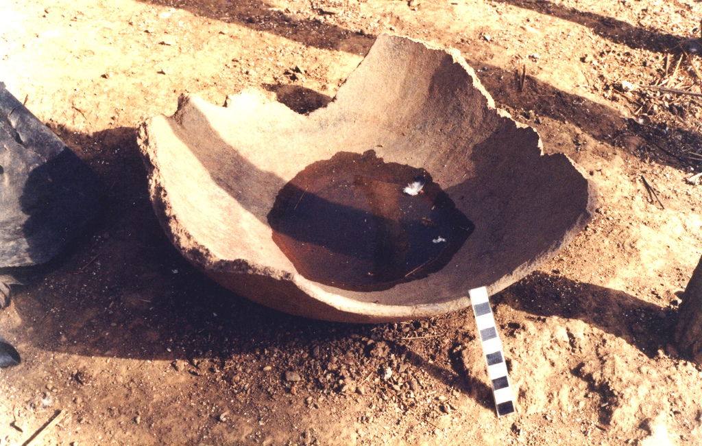 Broken potsherd used as a water bowl for chickens, southeast Senegal (West Africa) Scale in centimeters. Archaeologists and ethnoarchaeologists are interested in these sorts of uses since they might help explain unusually positioned residue patterns on a potsherd found in an archaeological site.